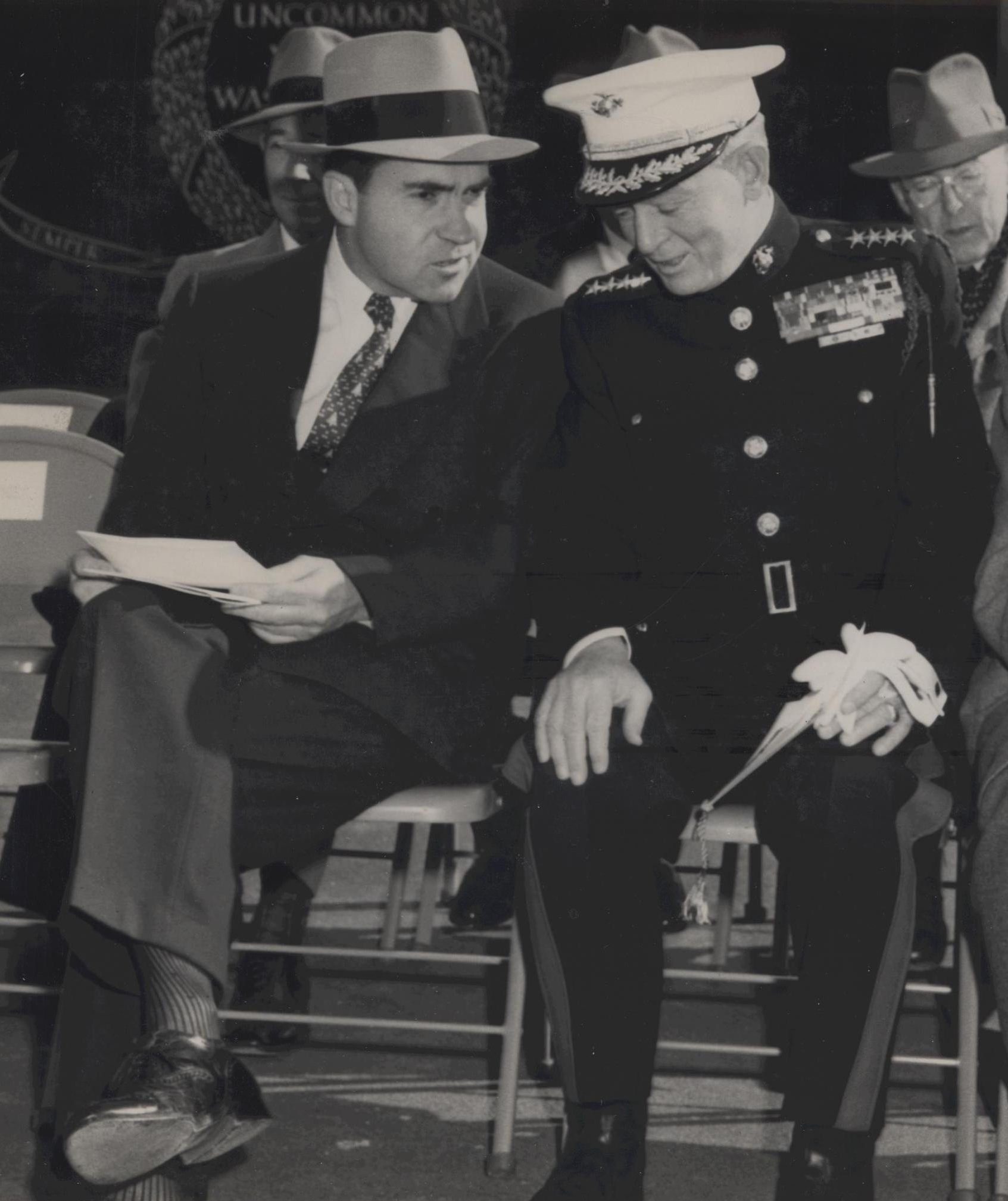 "Vice President Richard Nixon chats with General Lemuel C. Shepherd, Jr., Commandant of the Marine Corps, as they await the arrival of the President of the United States at the dedication ceremony of the Marine Corps War Memorial, while Secretary of Defense Charles Wilson (right) reviews his program. November 10, 1954."